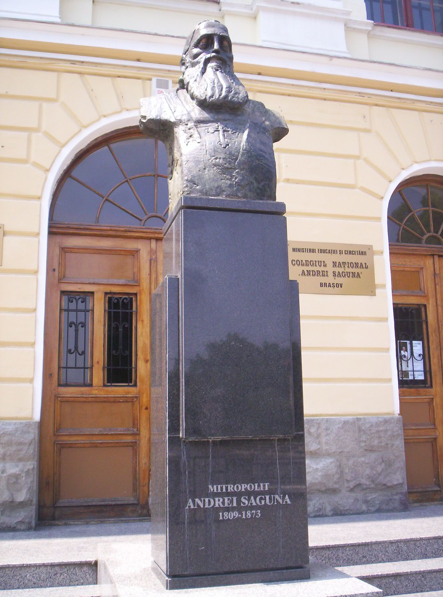 Andrei Şaguna szobra Brassóban – photo taken by uploader User:Csanády in 2006.